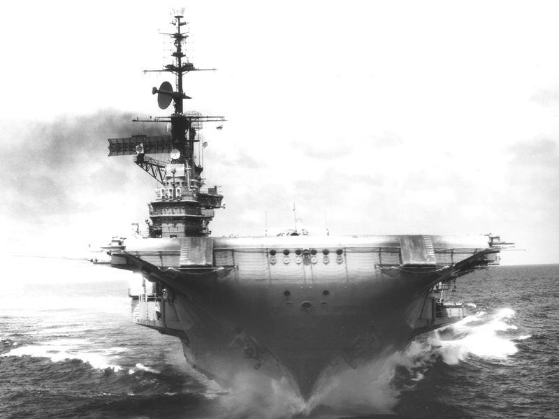 USS Midway (CVA-41) underway, about to conduct flight operations, on 27 October 1965. Note the enclosed bow. U.S. Navy photgraph by R.W. Lewis [11165417]